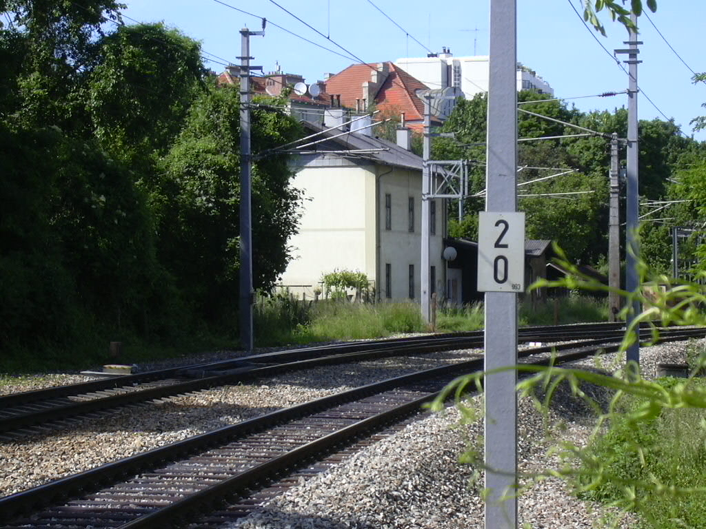 The former railway station St. Veit an der Wien on the Verbindungsbahn, the connection between South and West railways, in Vienna's 13th district near Hietzinger Hauptstrasse (address: Bossigasse # 15). The railway is in operation since 1860.